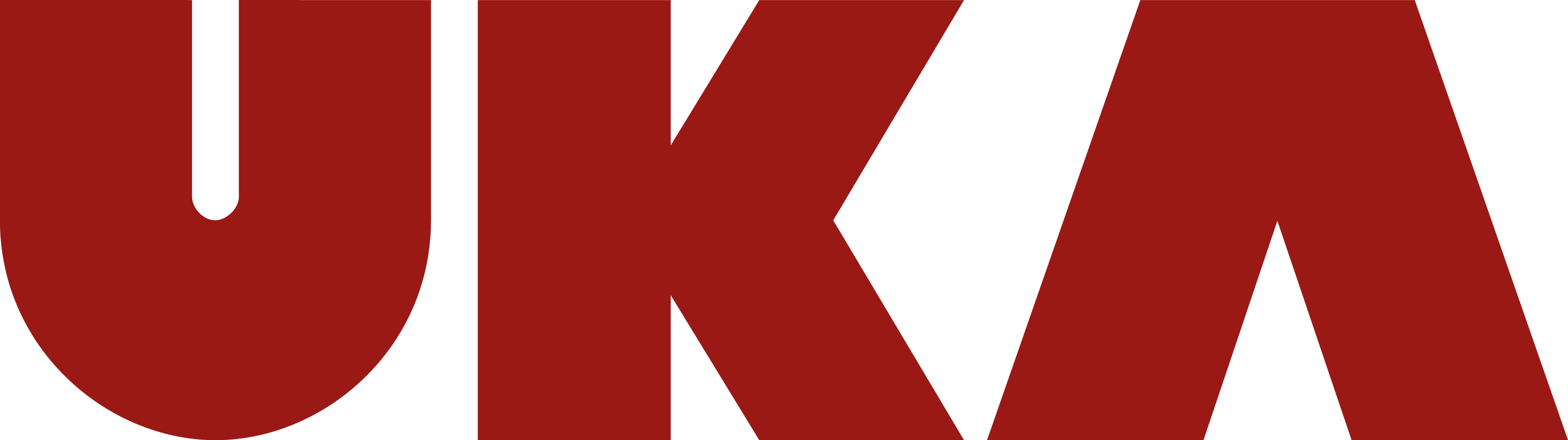 Official logo of the cultural festival UKA in Trondheim